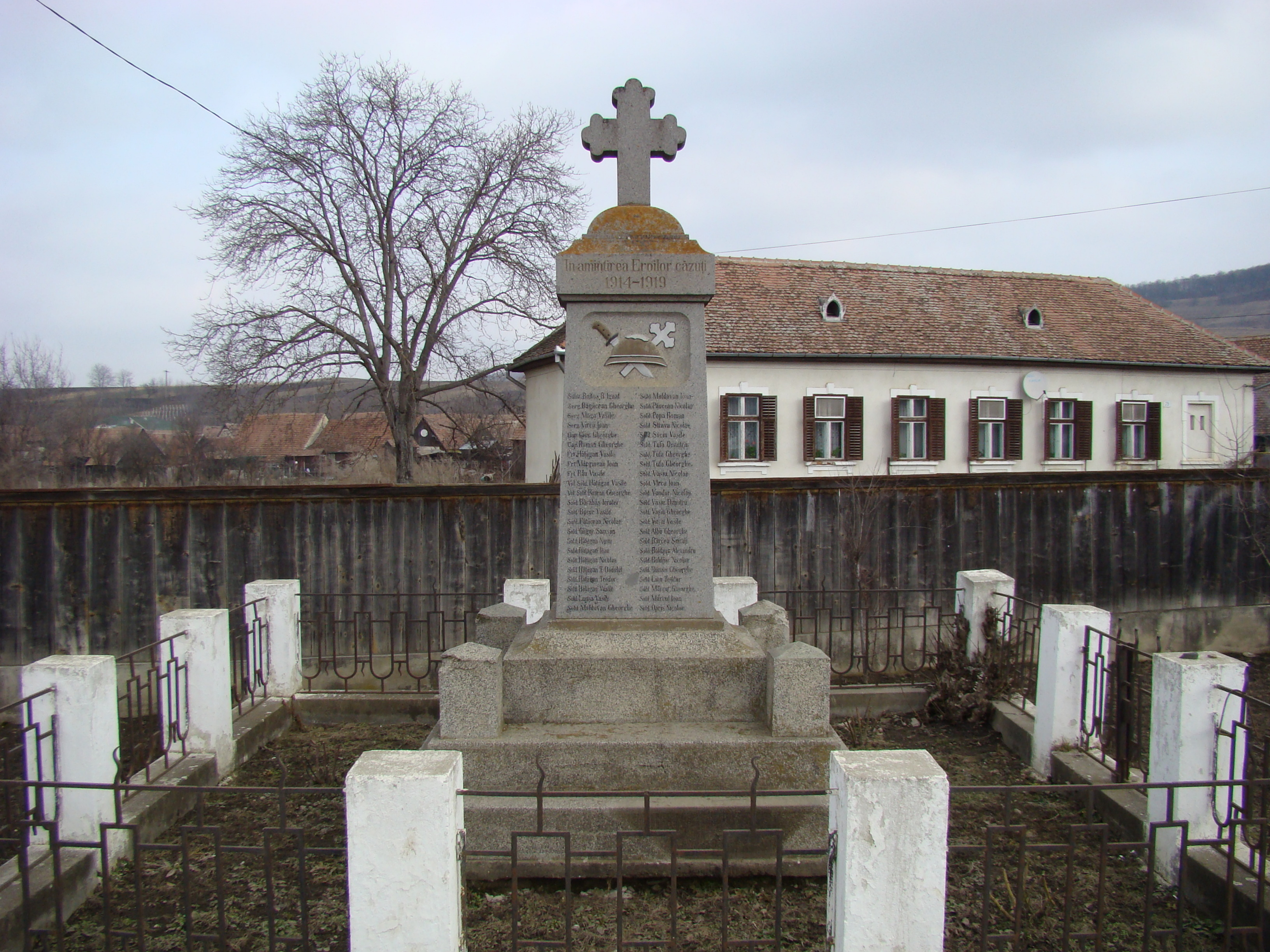 Blăjel, Sibiu county, Romania